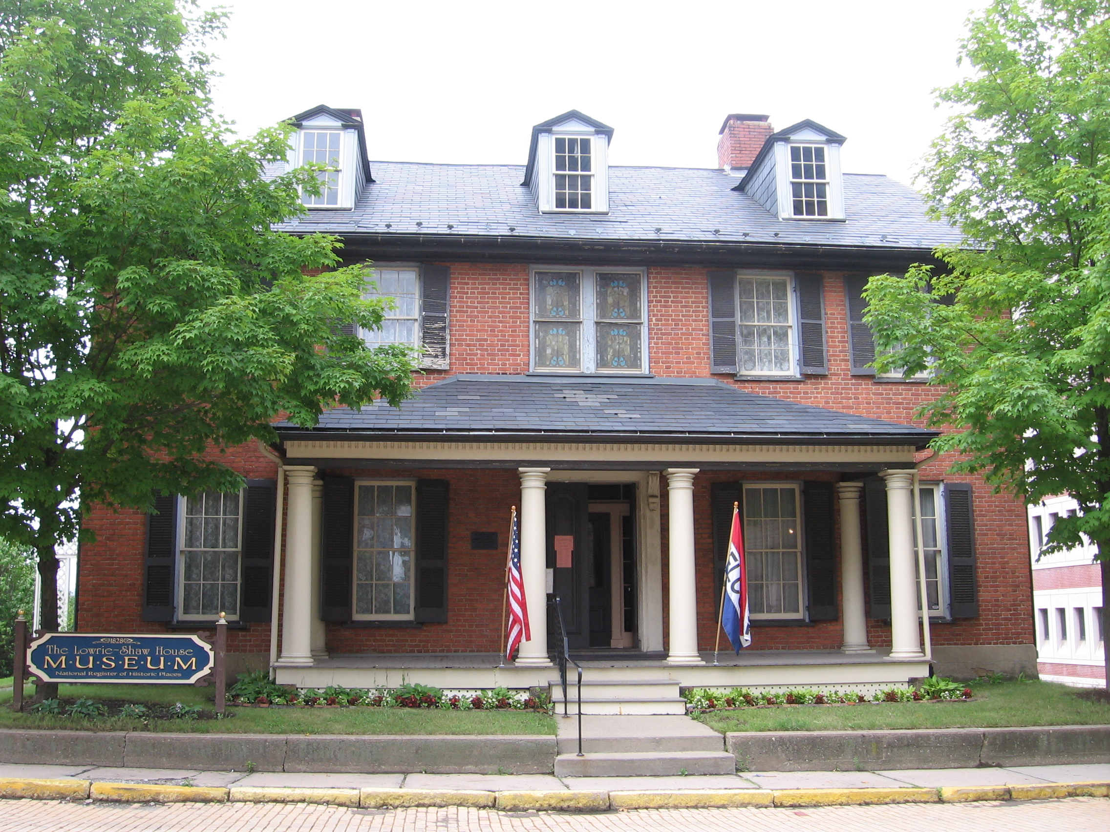 Front of the Sen. Walter Lowrie House, located at the intersection of West Diamond and South Jackson Streets in downtown Butler, Pennsylvania, United States. Built in 1828, the house (now a museum) is listed on the National Register of Historic Places, and it is located within the bounds of the Register-listed Butler Historic District.